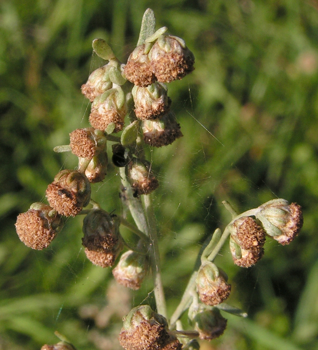 The inflorescences of Artemisia absinthium. Moscow region, Russia.